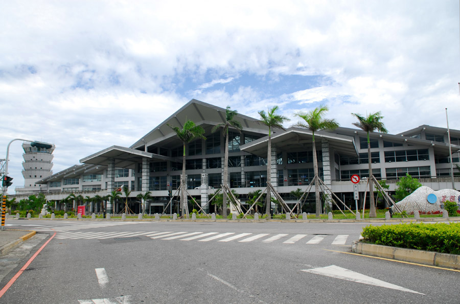 HuaLien Airport is a municipal airport located in the north side of HuaLien City. This airport is actually share-used between civilian and military entities.